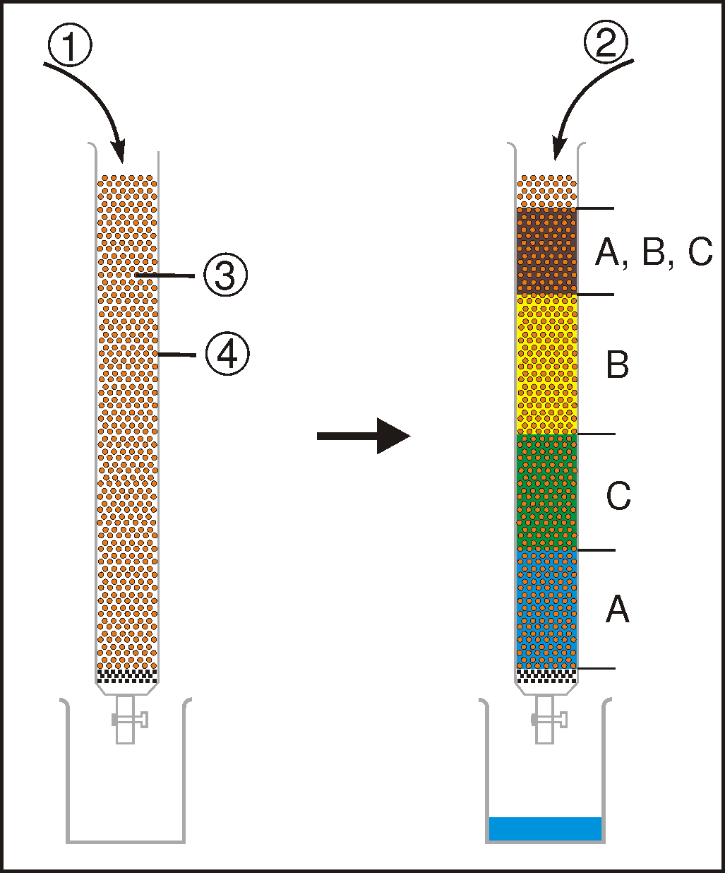 cvet chromatography